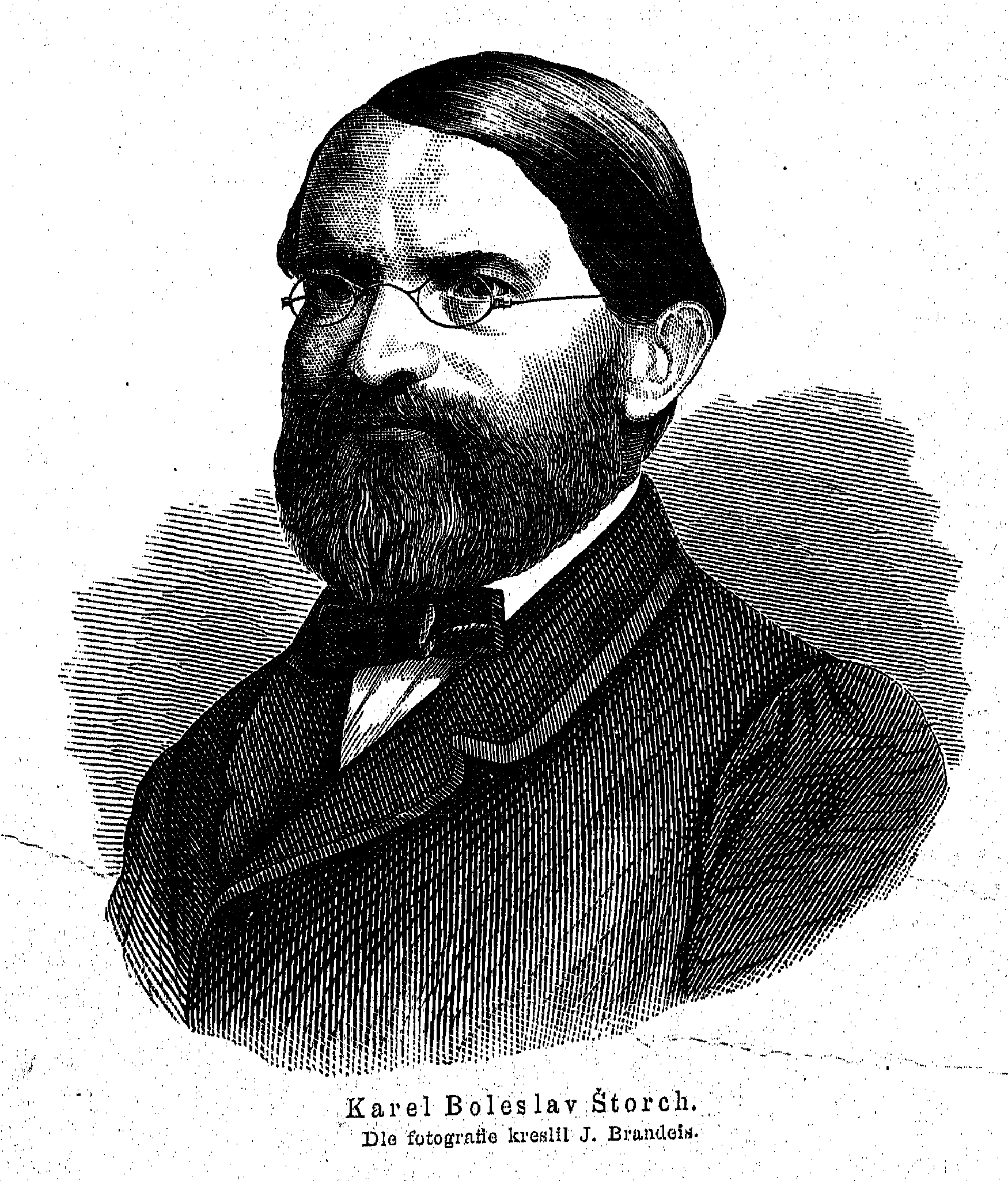 Portrait of Karel Boleslav Štorch (1812 - 1868), Czech writer and journalist